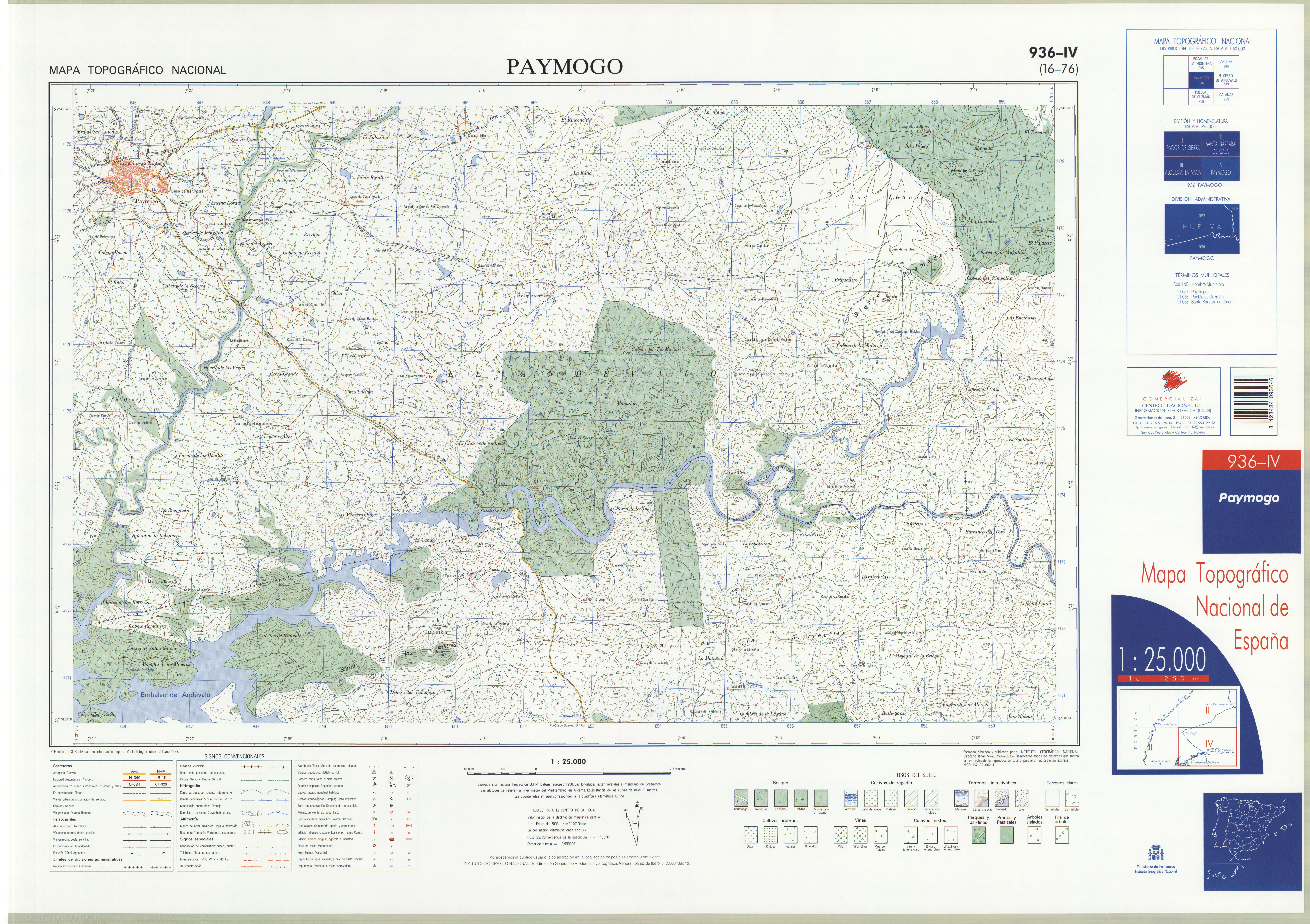 Fragment 0936c4 of the National Topographic Map of Spain in 2003 at a scale of 1:25000 printed and scanned with a resolution of 250 ppi. It shows Paymogo.